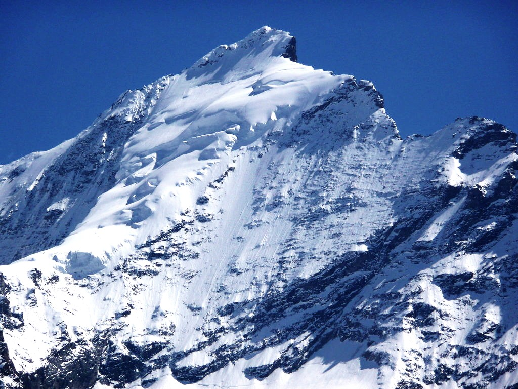 Western wall of Täschhorn